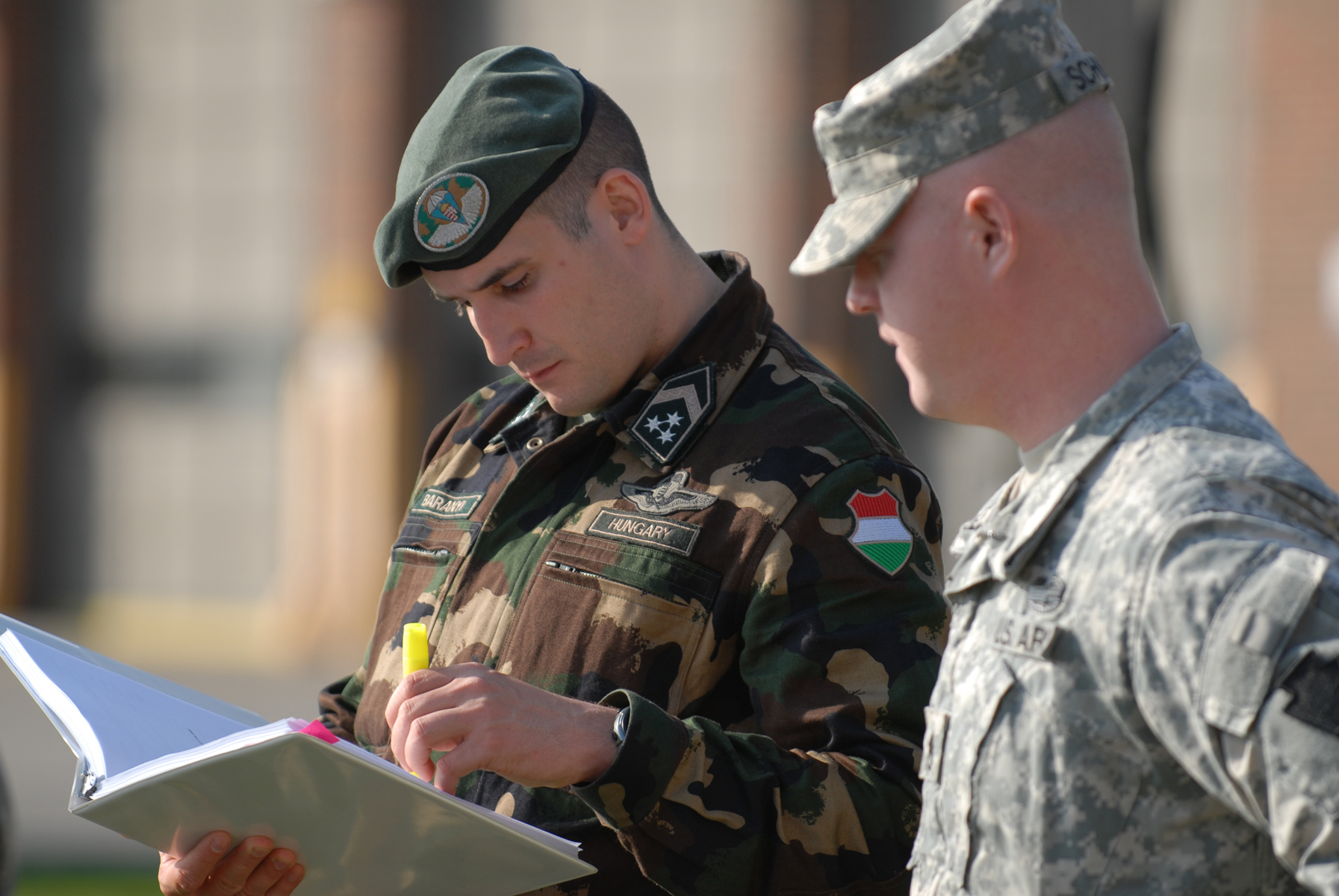 A Hungarian soldier and his Ohio ArmyNational Guard sponsor study convoy operations April 25 while attending BNCOC at the state's 147th Regiment (Regional Training Institute). Six Serbian and five Hungarian soldiers attended the two-week U.S. Army leadership course followed by a one-week Total Army Instructor Training Course. (